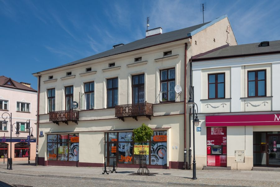 House at 27 Market Square in Skierniewice.